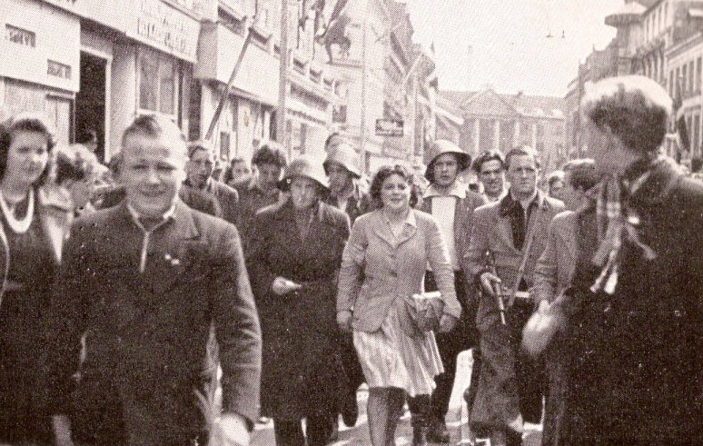 The resistance rounds up collaborators. Here a girl who has been on friendly terms with german soldiers